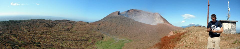 Volcano Telica December 2011